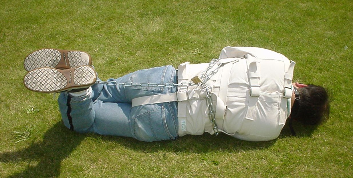 A straitjacket as seen from the rear.